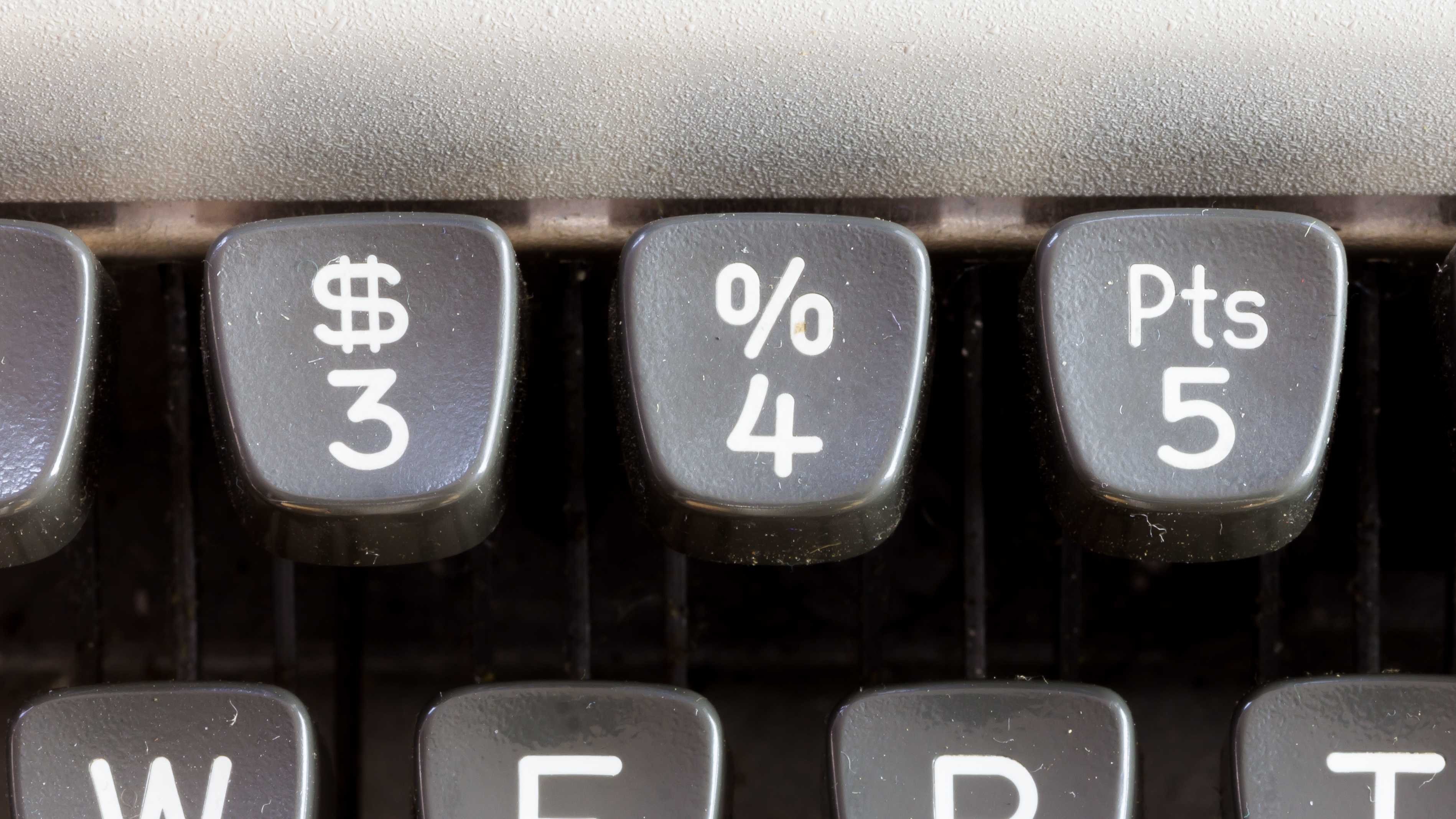 AEG Olympia - Traveller de Luxe - Spanish keyboard layout